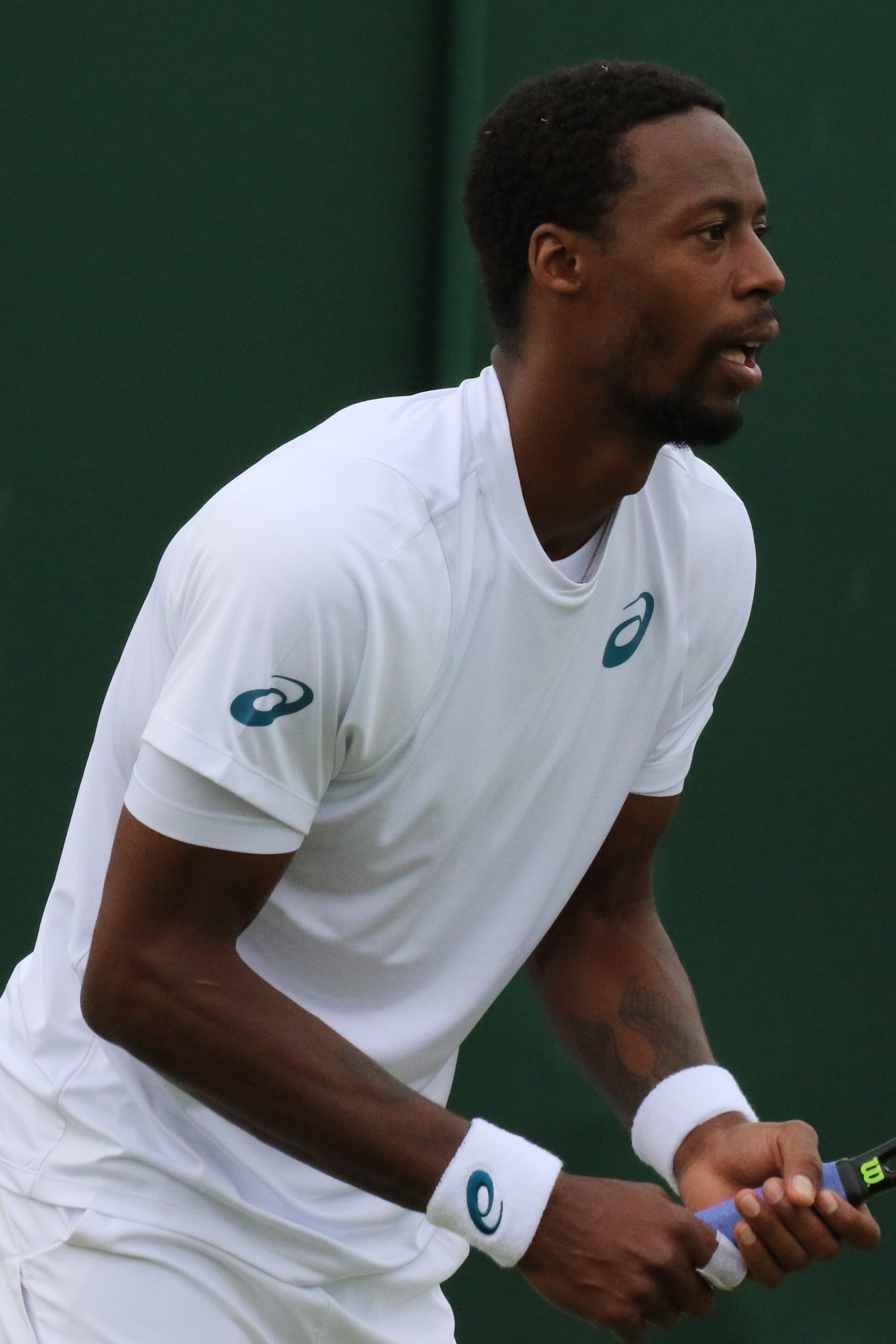 Monfils WM16 (7)